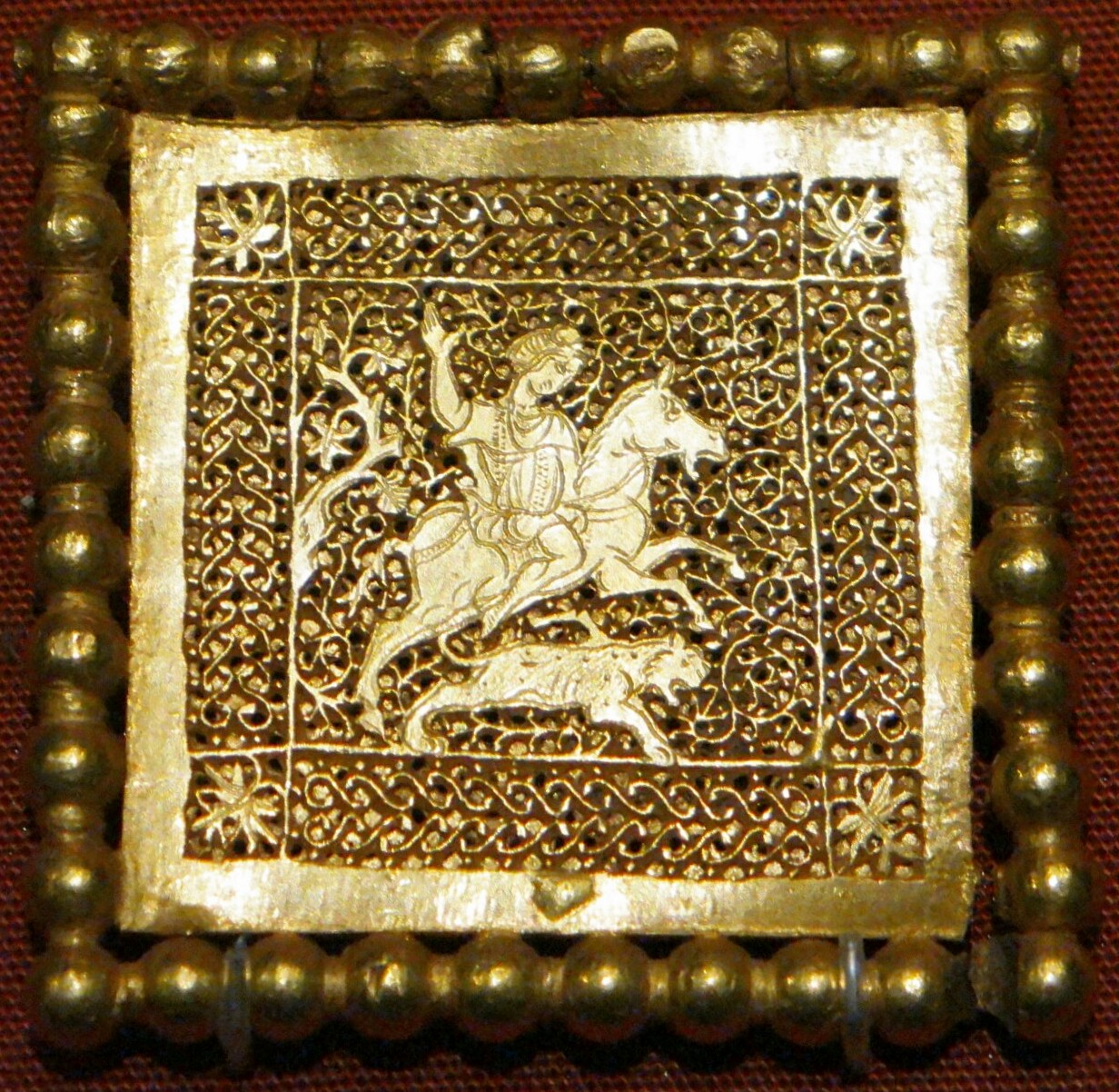 AD 300s, possibly from Turkey. This 50mm square plaque is likely to have been part of a belt. Gold plaque composed of two square open-work (opus interrasile) panels set back-to-back and edged with coarse beaded wire. The front is decorated with the figure of a mounted huntress riding to right with uplifted right arm; below the prancing horse, the figure of a lion to right; behind the rider, a tree; all executed in engraved and punched gold sheet reserved against an open-work background. The background consists of a double cable border enclosing vegetal scrollwork. In each corner of the panel, an eight-lobed motif which is replicated on the reverse in ten rows of ten. The upper row of beading is threaded on a gold pin. British Museum. Displayed in G41/dc14/sB. Ref. AF.332